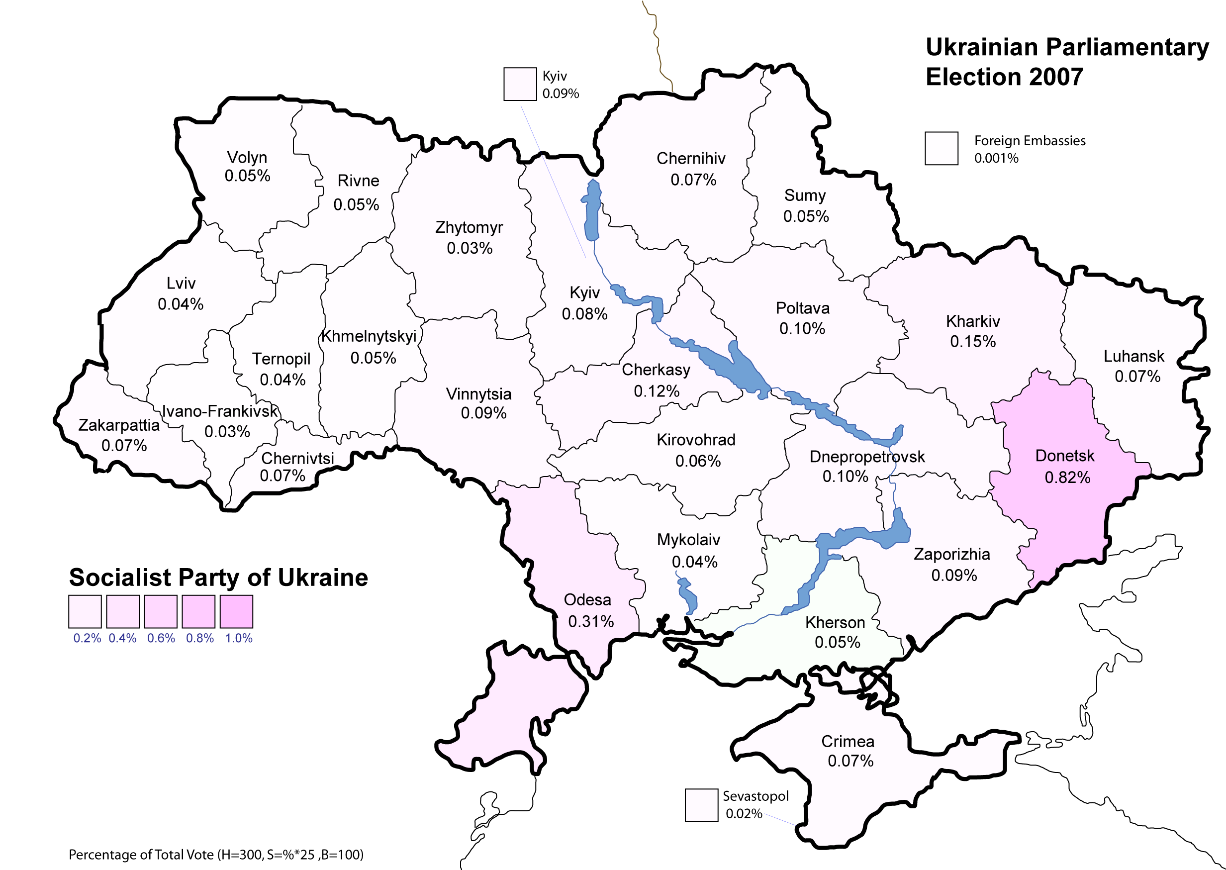 Socialist Party of Ukraine results (2.86%) in the Ukrainian parliamentary election, 2007. One of the maps showing the top six parties support - percentage of total national vote.